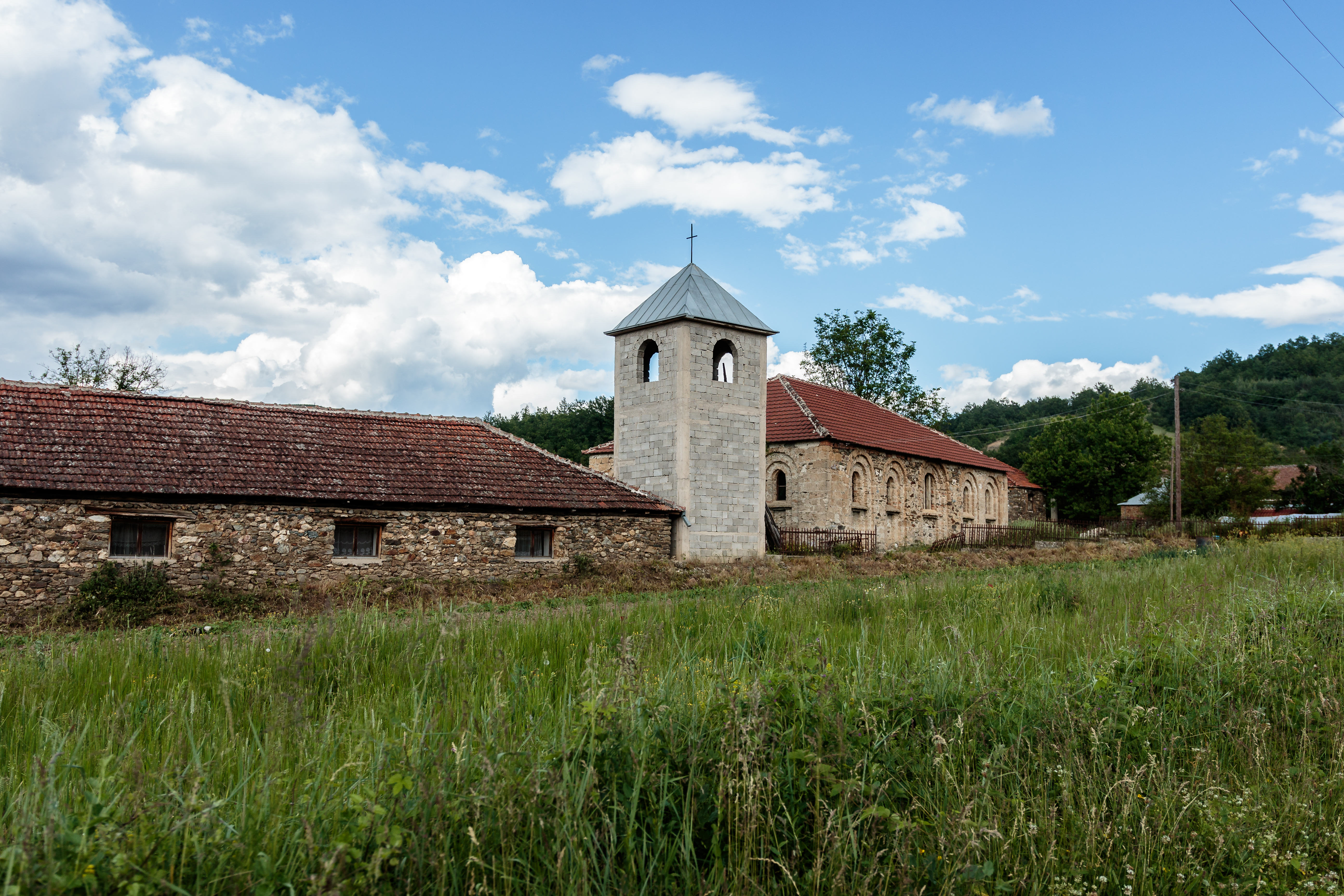 View of the Church of the Ascension of Christ in the village Mrenoga